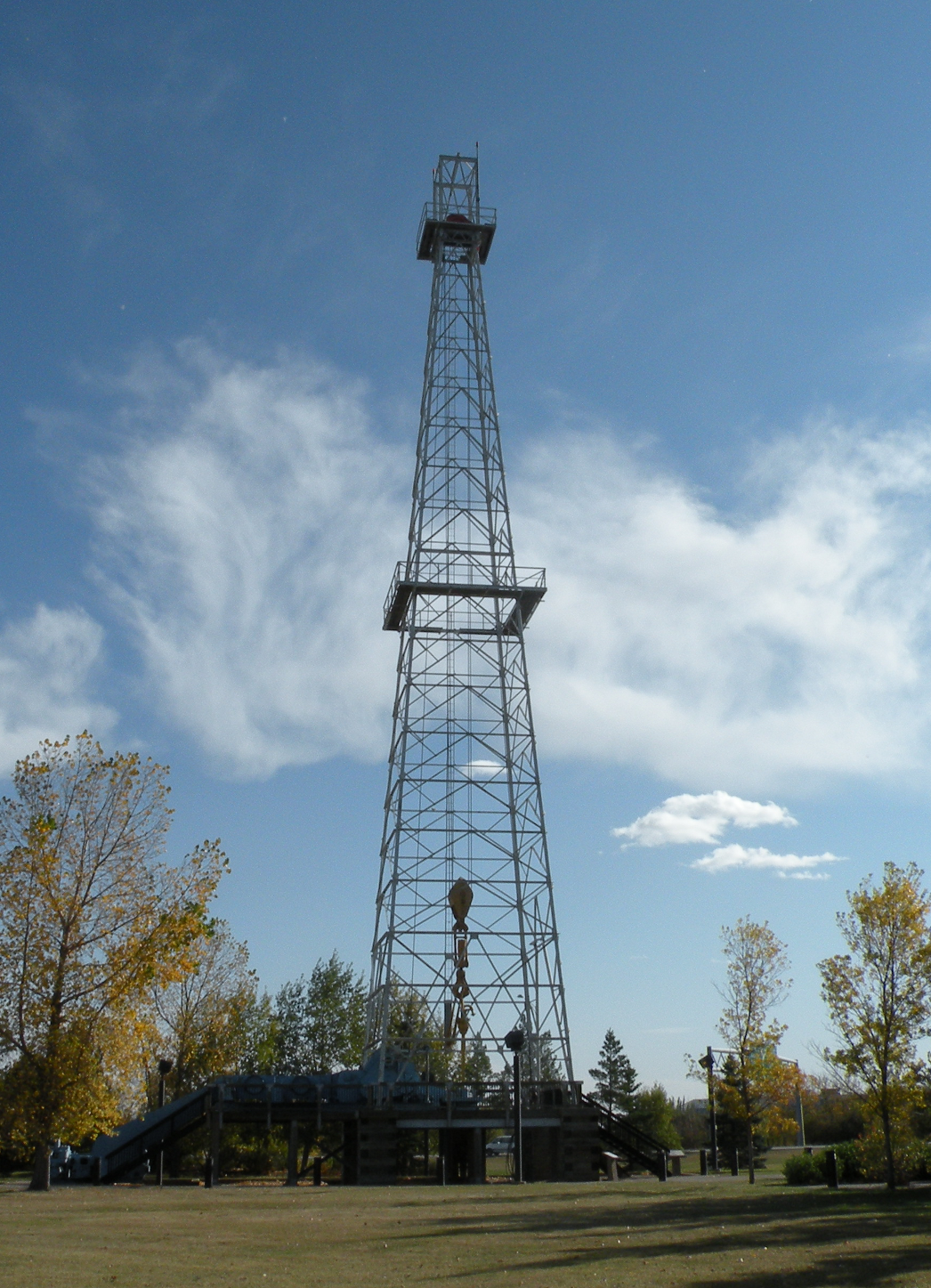 The derrick used to drill the Leduc No. 1 well in 1946-47. It is currently on display at Gateway Park in the south of Edmonton, Alberta.